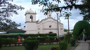 Catholic Church